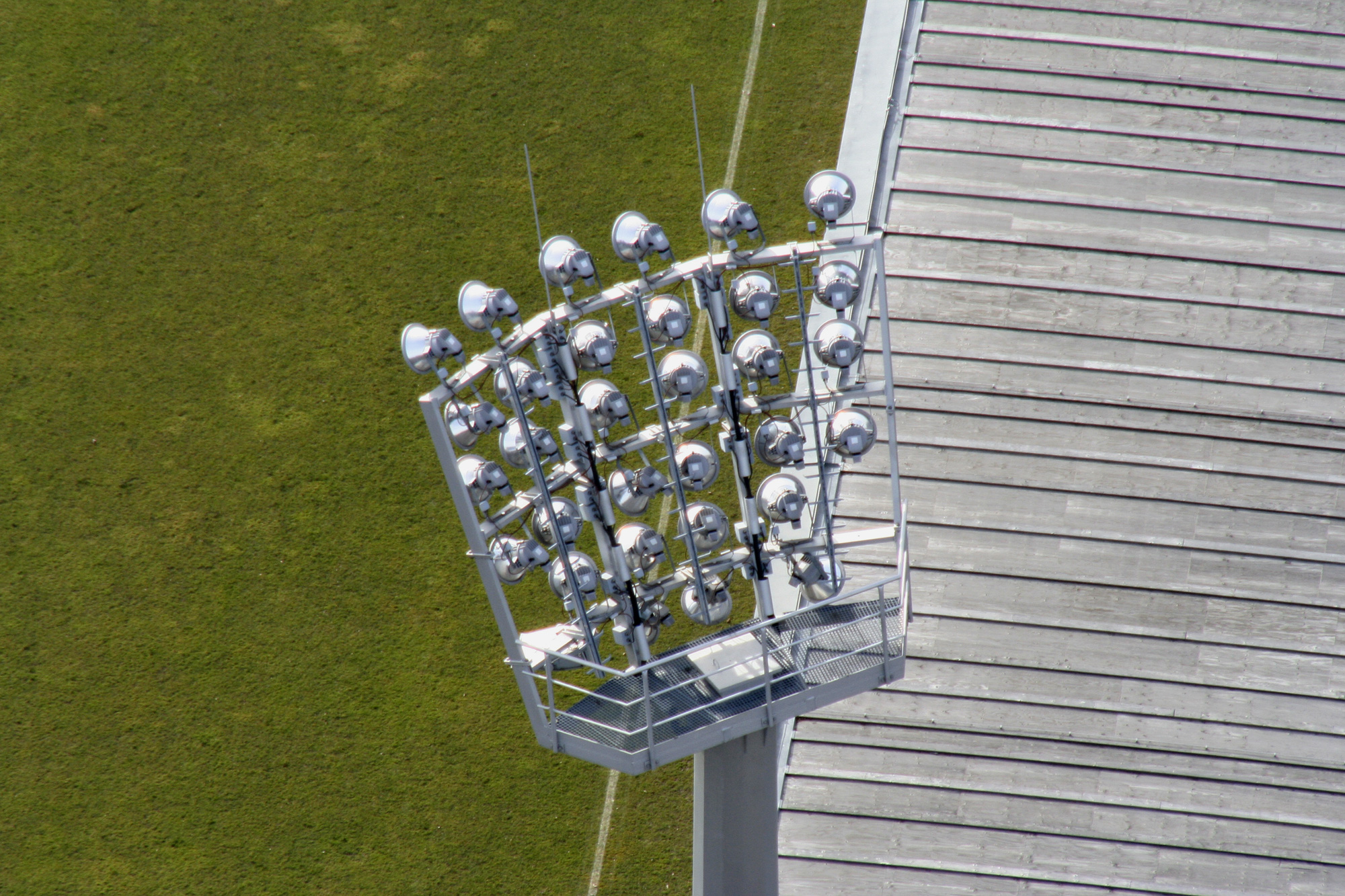 A soccer field from above focusing on the floodlight